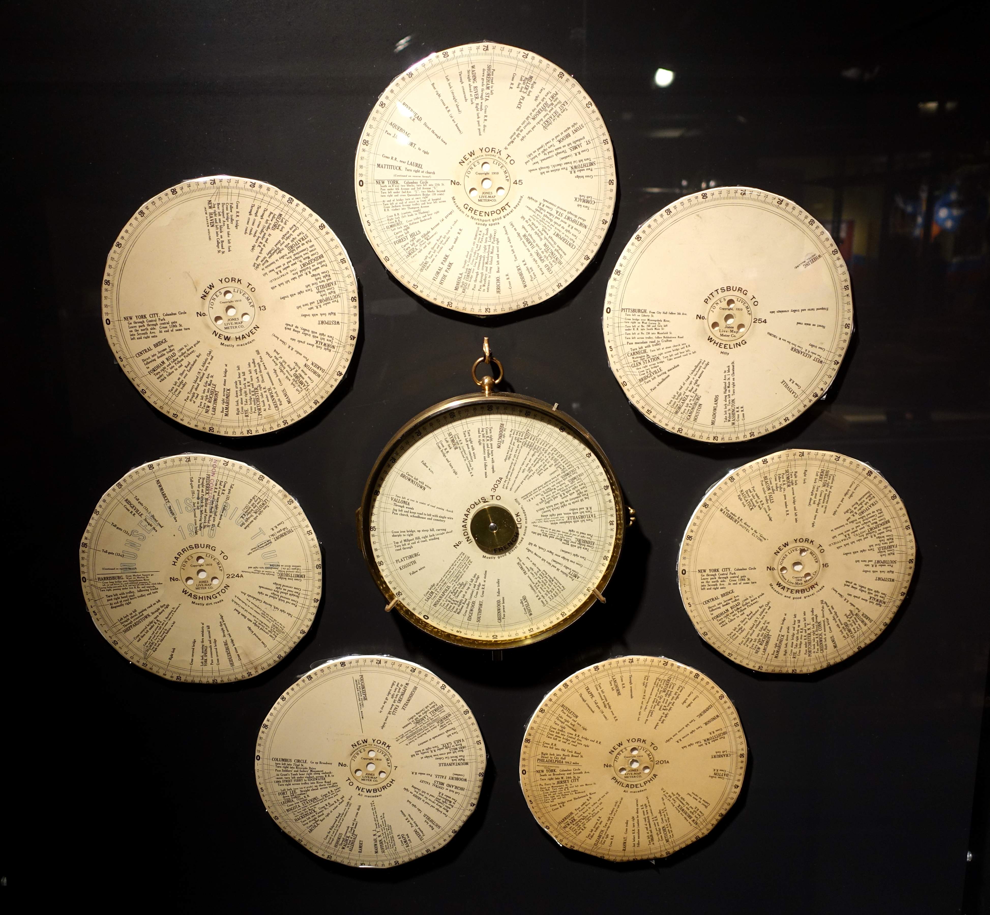 Exhibit in the Museum of Science and Industry, Chicago, Illinois, USA.